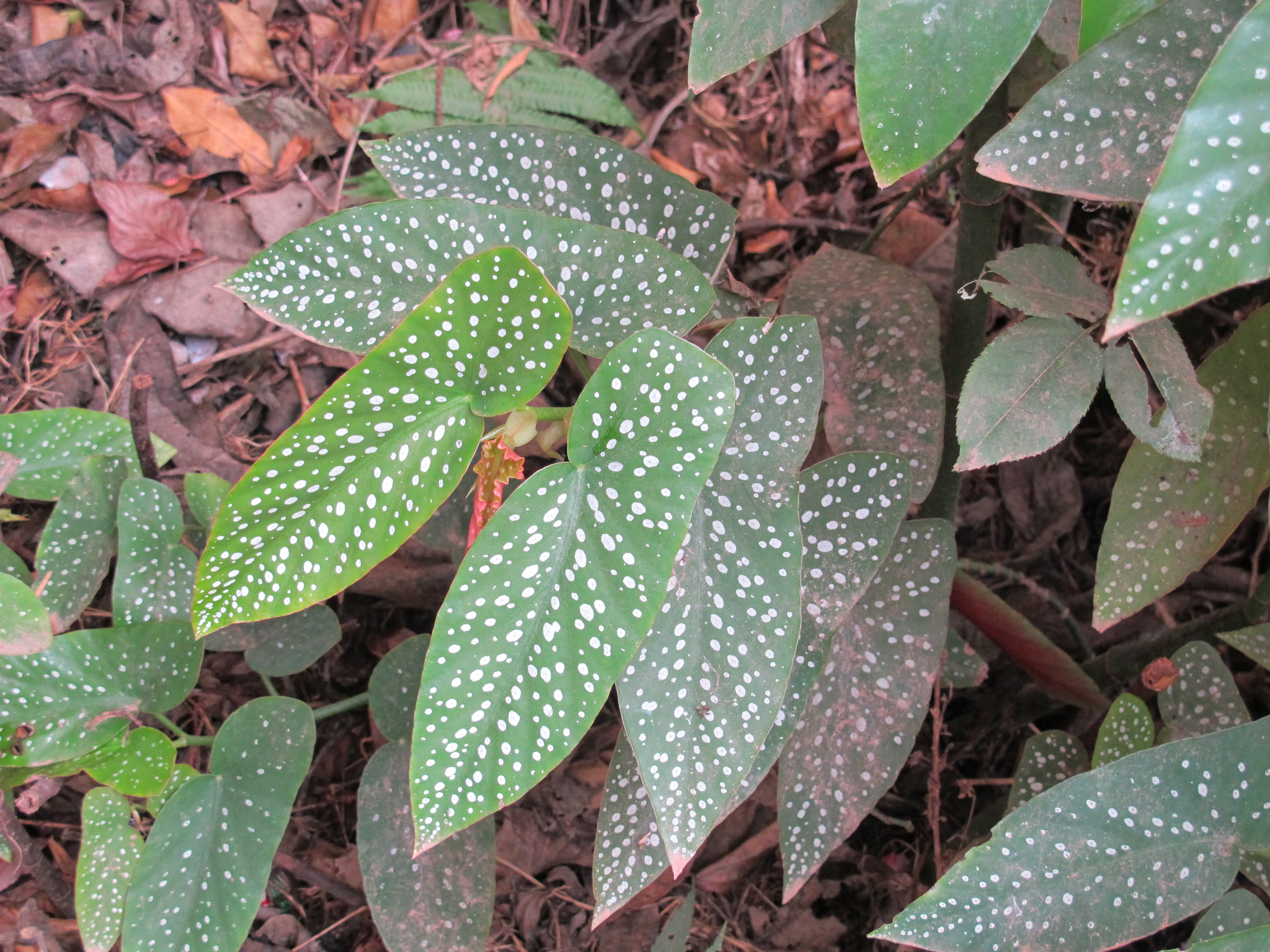 Begonia maculata at 18°54'32.70"S, 47°34'04.21"E